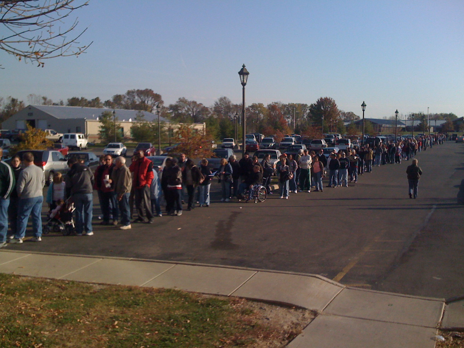 Early voting in Ohio on November 1, 2008